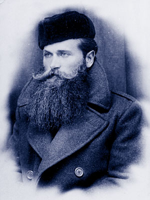 «Captain Lambros» (Spyros Bekios) - commander of an engineering group of the National Liberation Army of Greece, which blew-up the railway tunnel in Kurnovo, Central Greece, June 1943, costing the lives of up to 300 soldiers of the Italian occupation army.